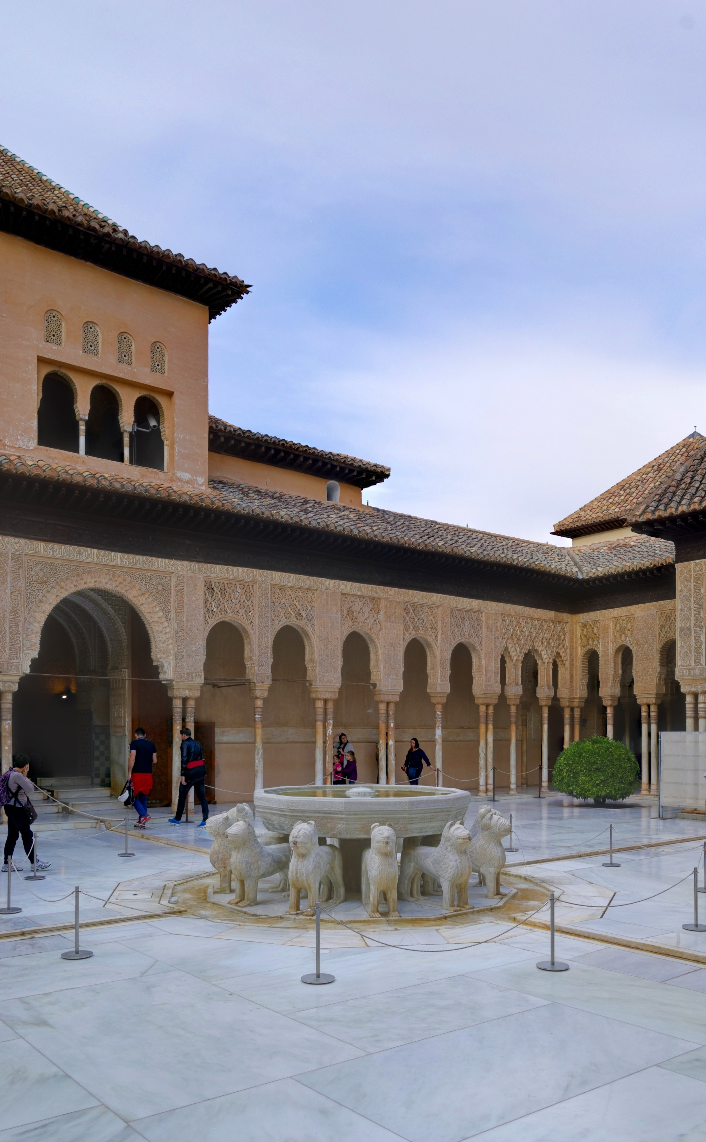 Spain, Granada, Alhambra, Patio de los Leones